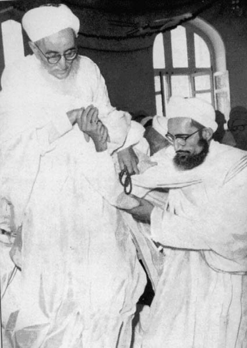 Syedna Mohammed Burhanuddin with his father Syedna Taher Saifuddin (c. 1960).